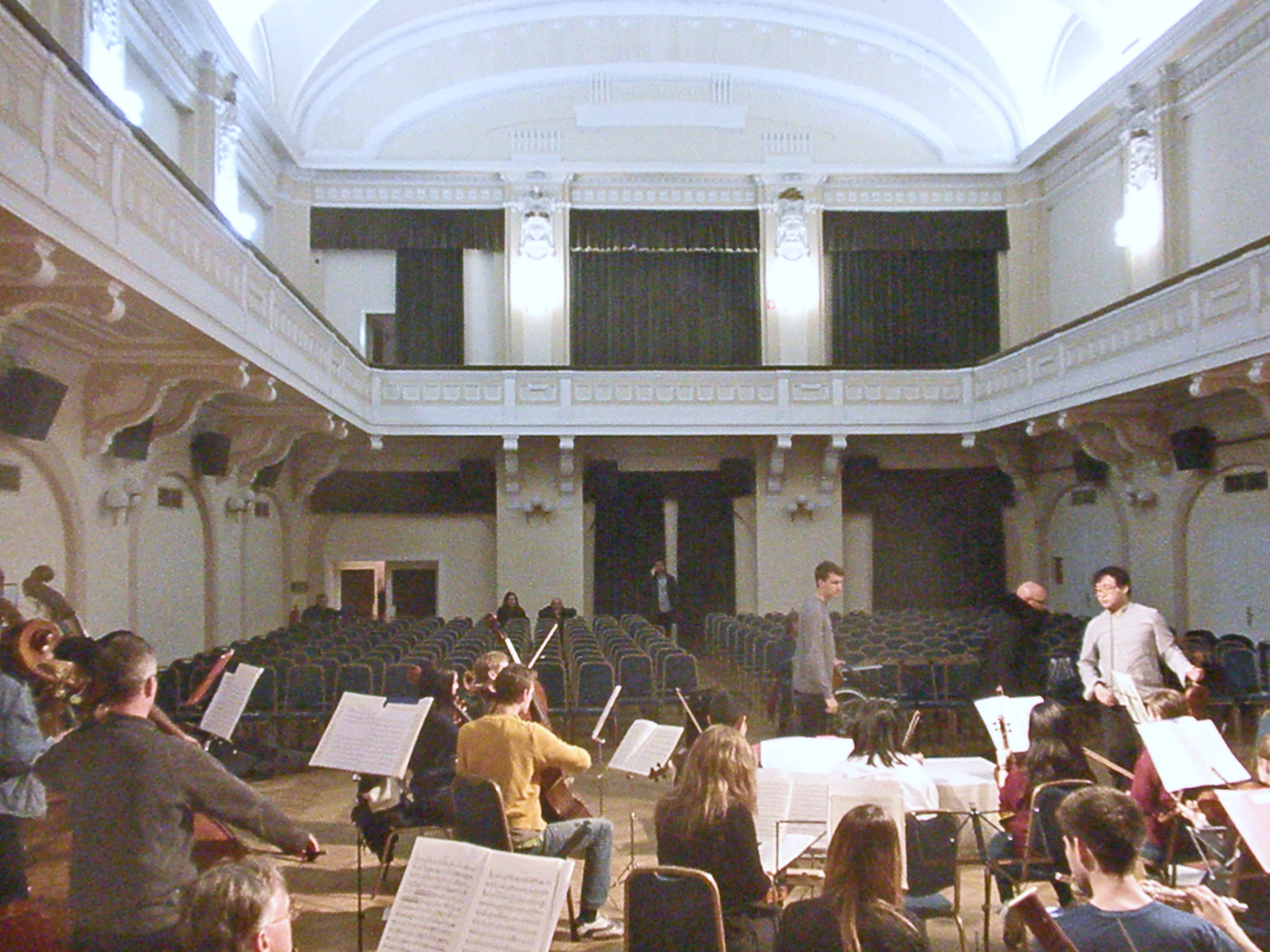 Rehearsal